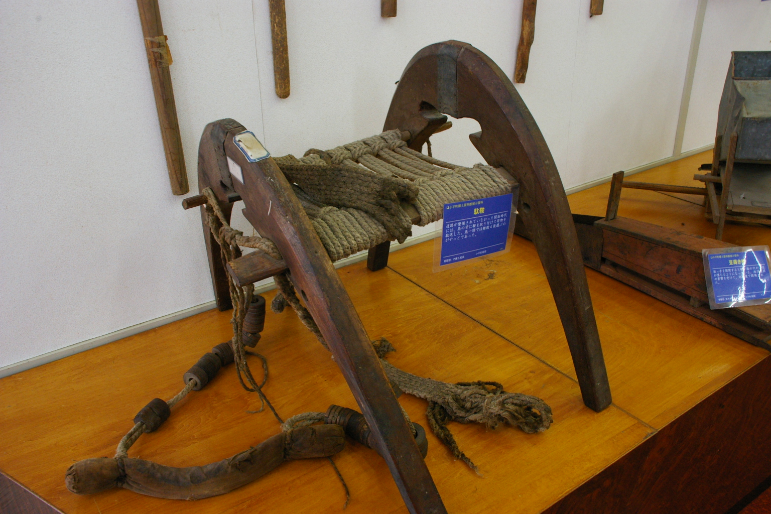 Load saddle displayed at the Obira Town Local History Museum, Hokkaido, Japan